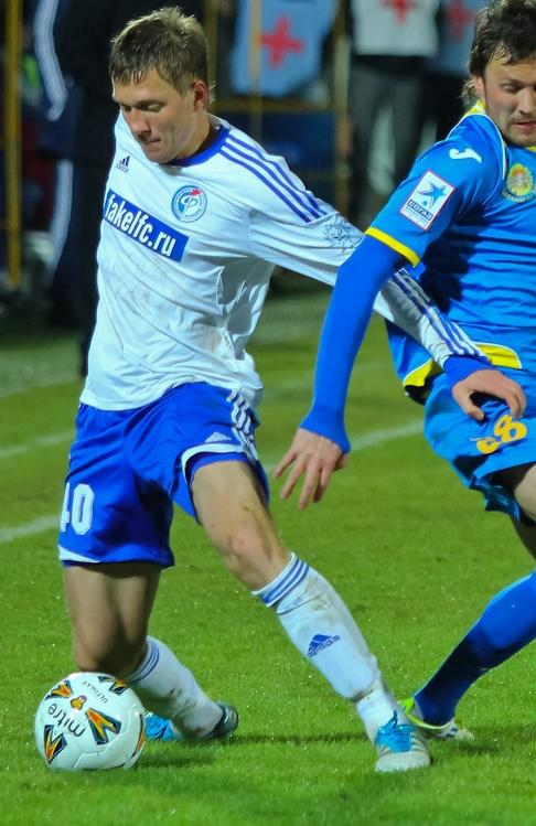 Yevgeni Gapon with FC Fakel Voronezh.